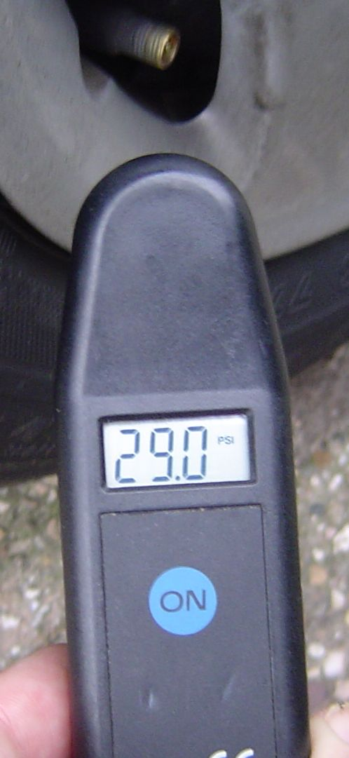 Digital tire pressure gauge.